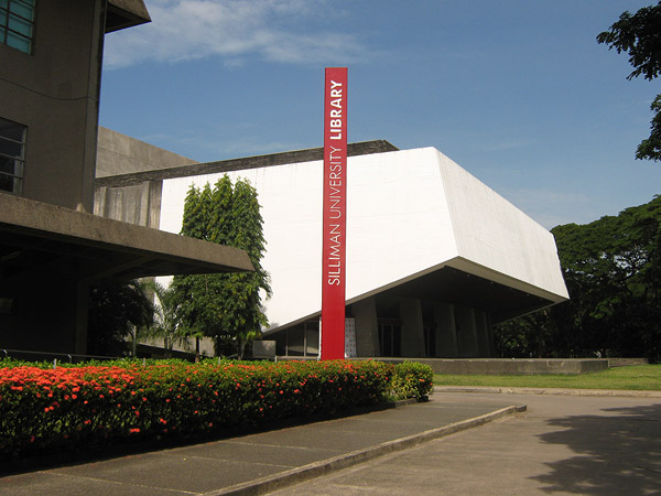 The Claire Isabel McGill Luce Auditorium as seen from the SU Main Library